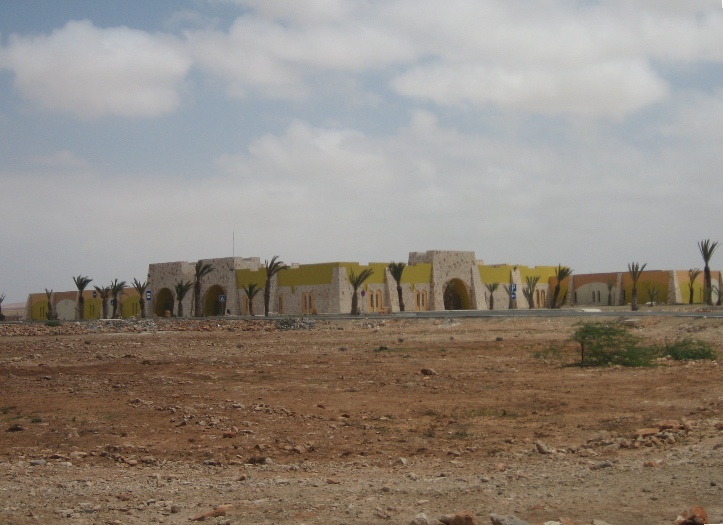 The international airport of Rabil on the island of Boa Vista, Cape Verde, 2007 shortly before it was opened